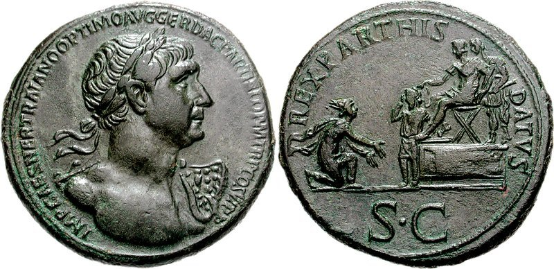 Trajan. AD 98-117. Æ Sestertius (26.60 g, 6h). Rome mint. Struck circa AD 116-117. Laureate bust right, wearing aegis REX PARTHIS DATVS, Trajan seated left on daïs, presenting Parthamaspates to Parthia kneeling right; behind Trajan, prefect standing left. RIC II 668; Banti 97.